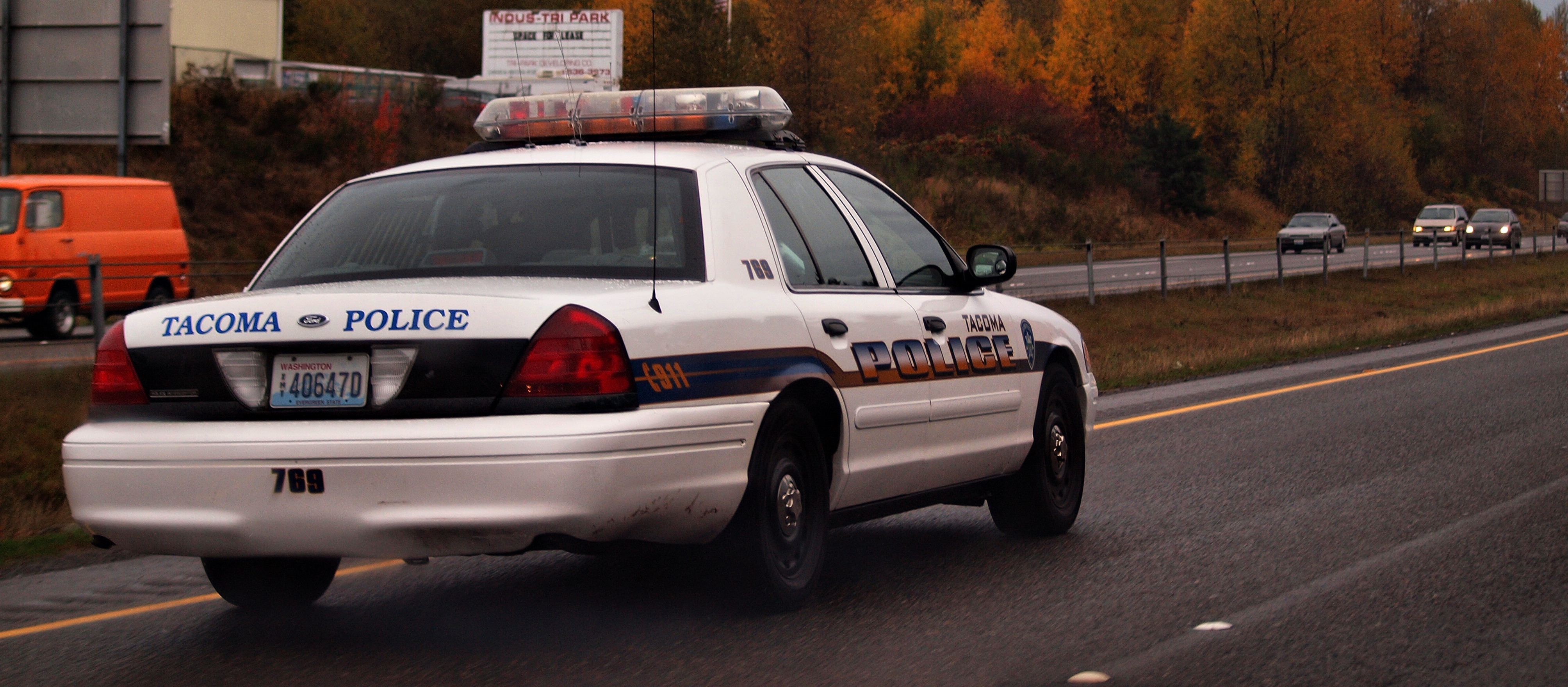 A Tacoma Police Cruiser patrolling in Tacoma Washington